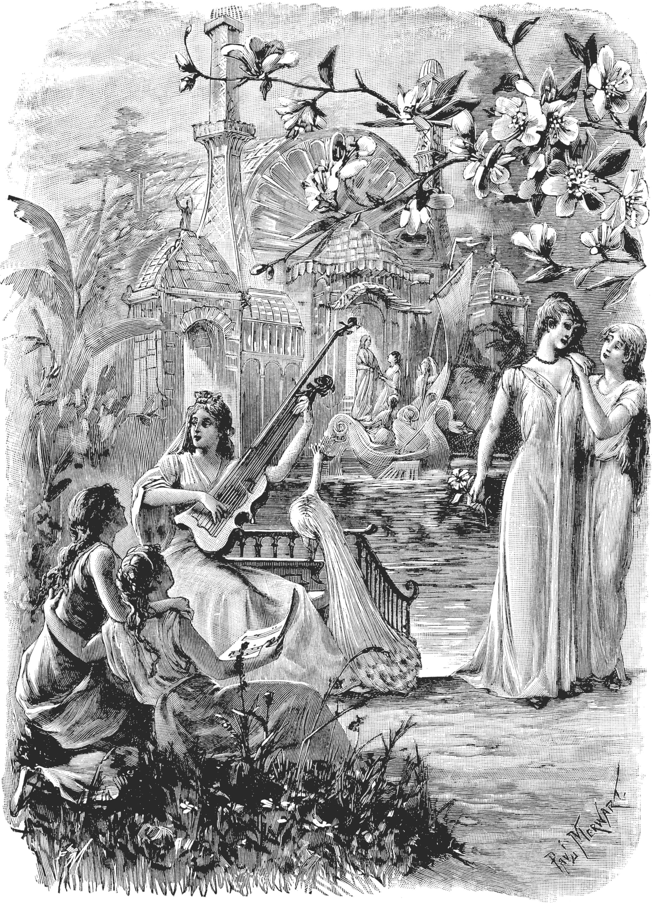 in the future, the evolution make all women beautiful. By small jaws and beautiful voices